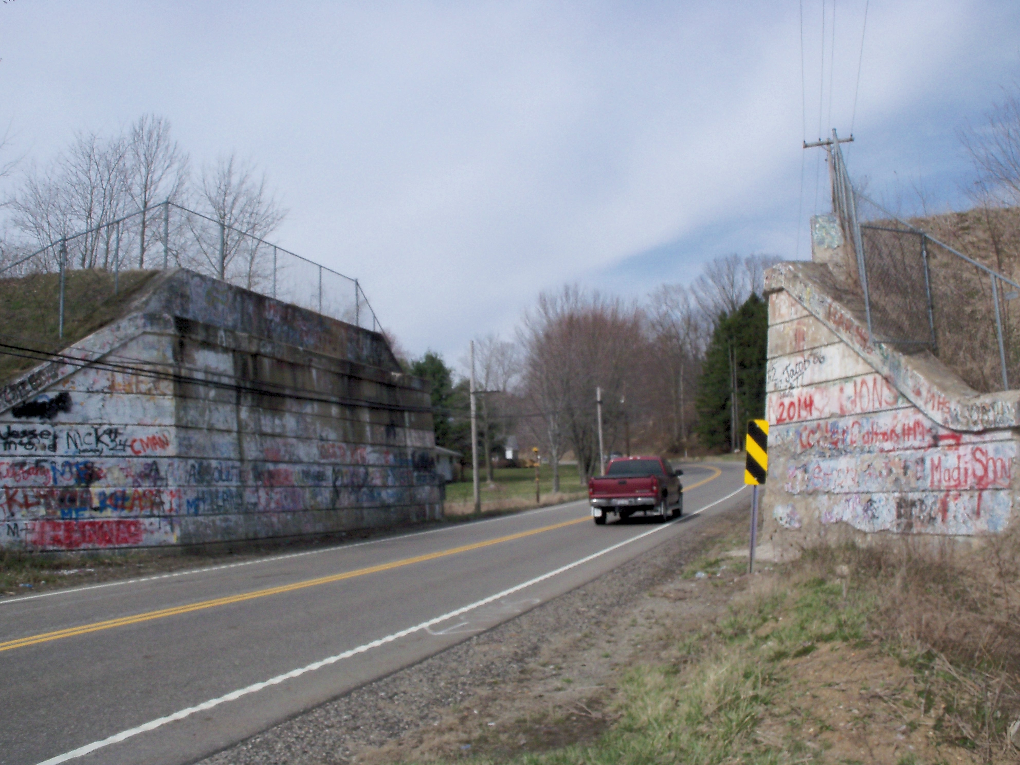 Graffiti on abandoned rail underpass on Ohio State Route 183 north of Minerva, Ohio